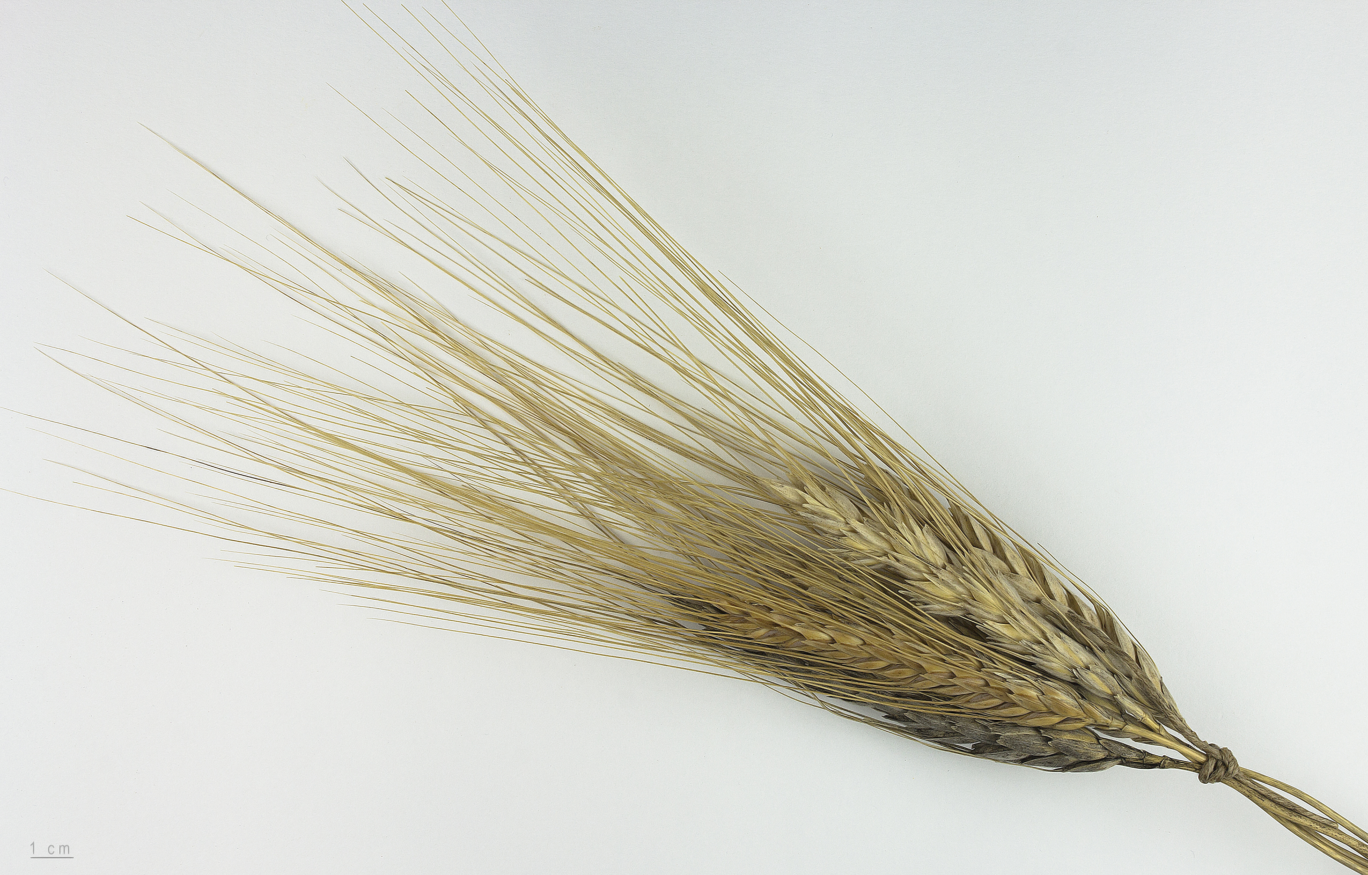 Triticum turgidum subsp. turanicum, Khorasan wheat, seeds